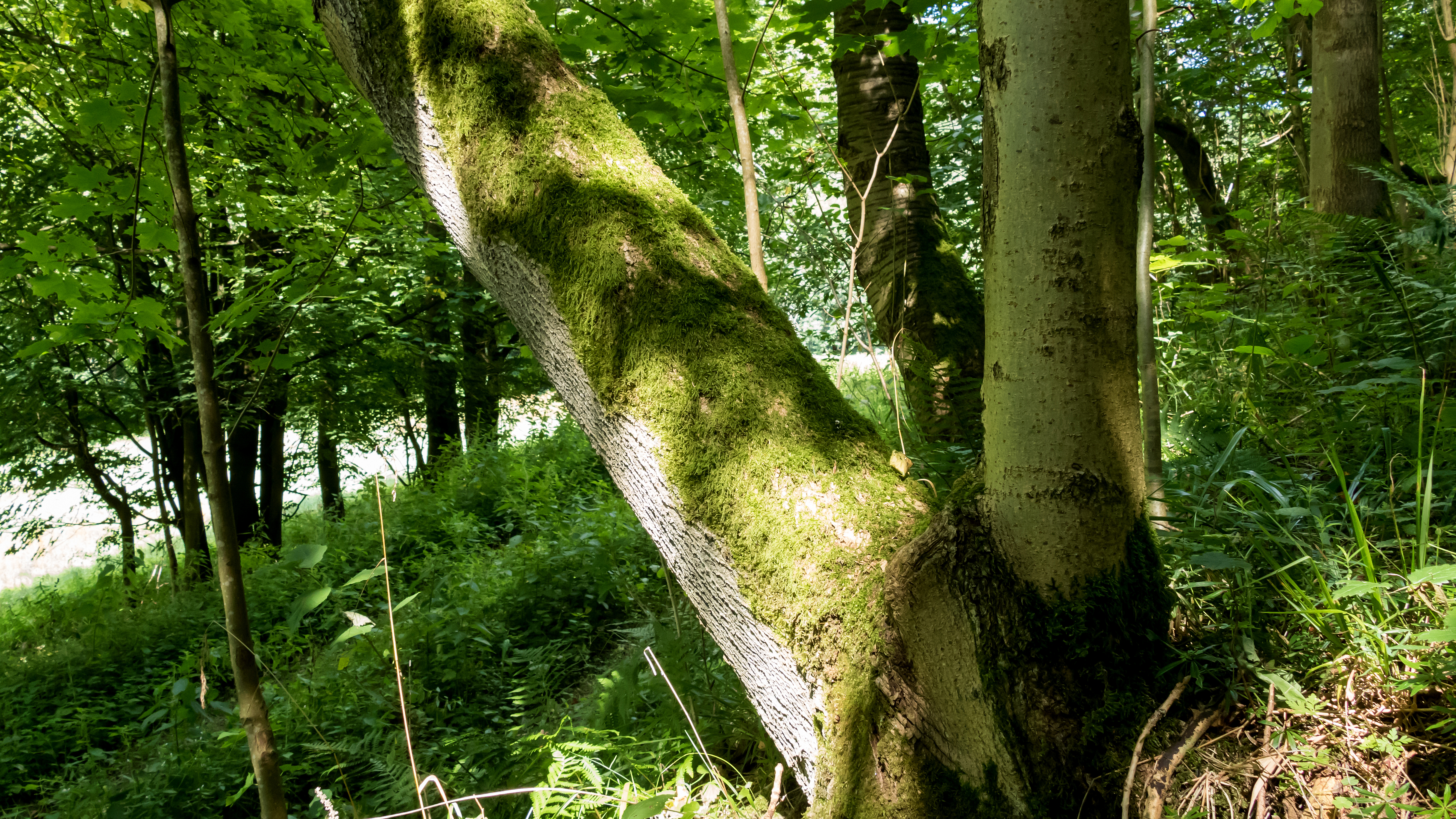 Naturschutzgebiet Ilmwand WDPA Ilmwand Nord I